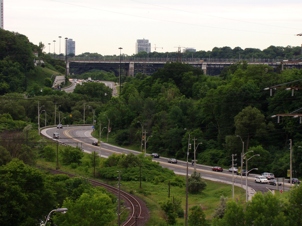 The Bayview extension looking south towards the Prince Edward Viaduct. This portion of Bayview Avenue was constructed in 1960 to provide an arterial road through the lower Don Valley. It is one of the few roads in Toronto with a speed limit of 70km/h. Behind the trees on the right is the Don Valley Brickworks and the Half-Mile Bridge